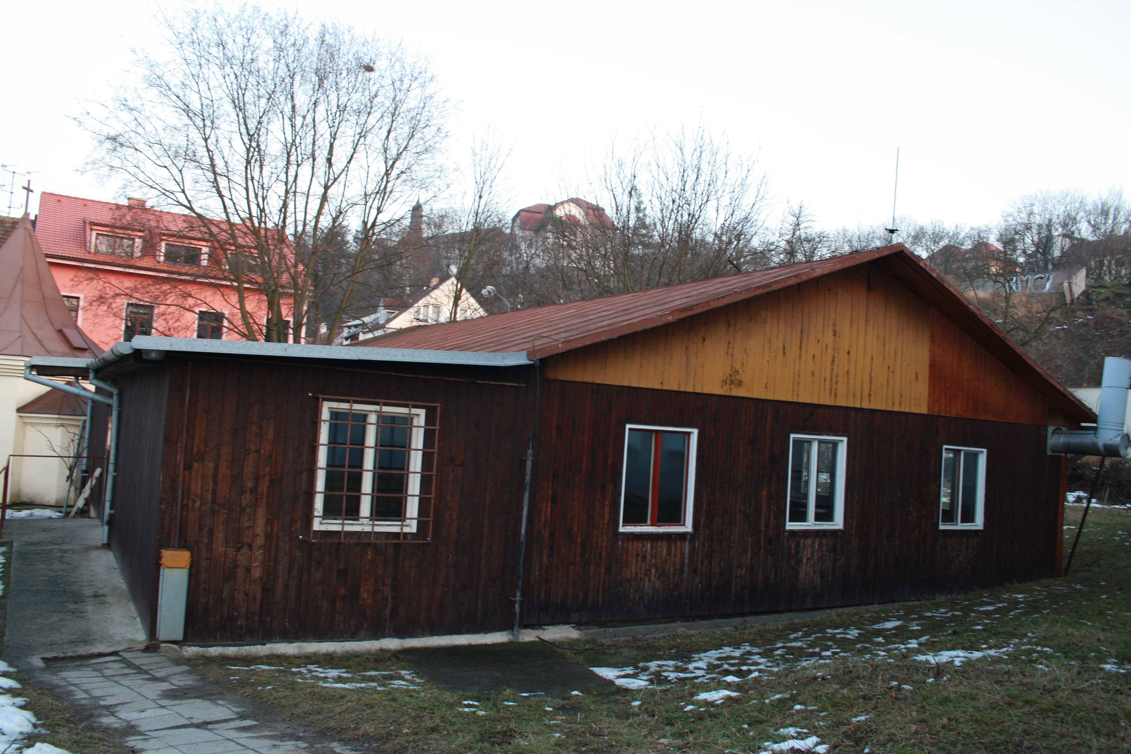 Building of Halahoj, the students club of religious grammar school in Třebíč, Czech Republic.